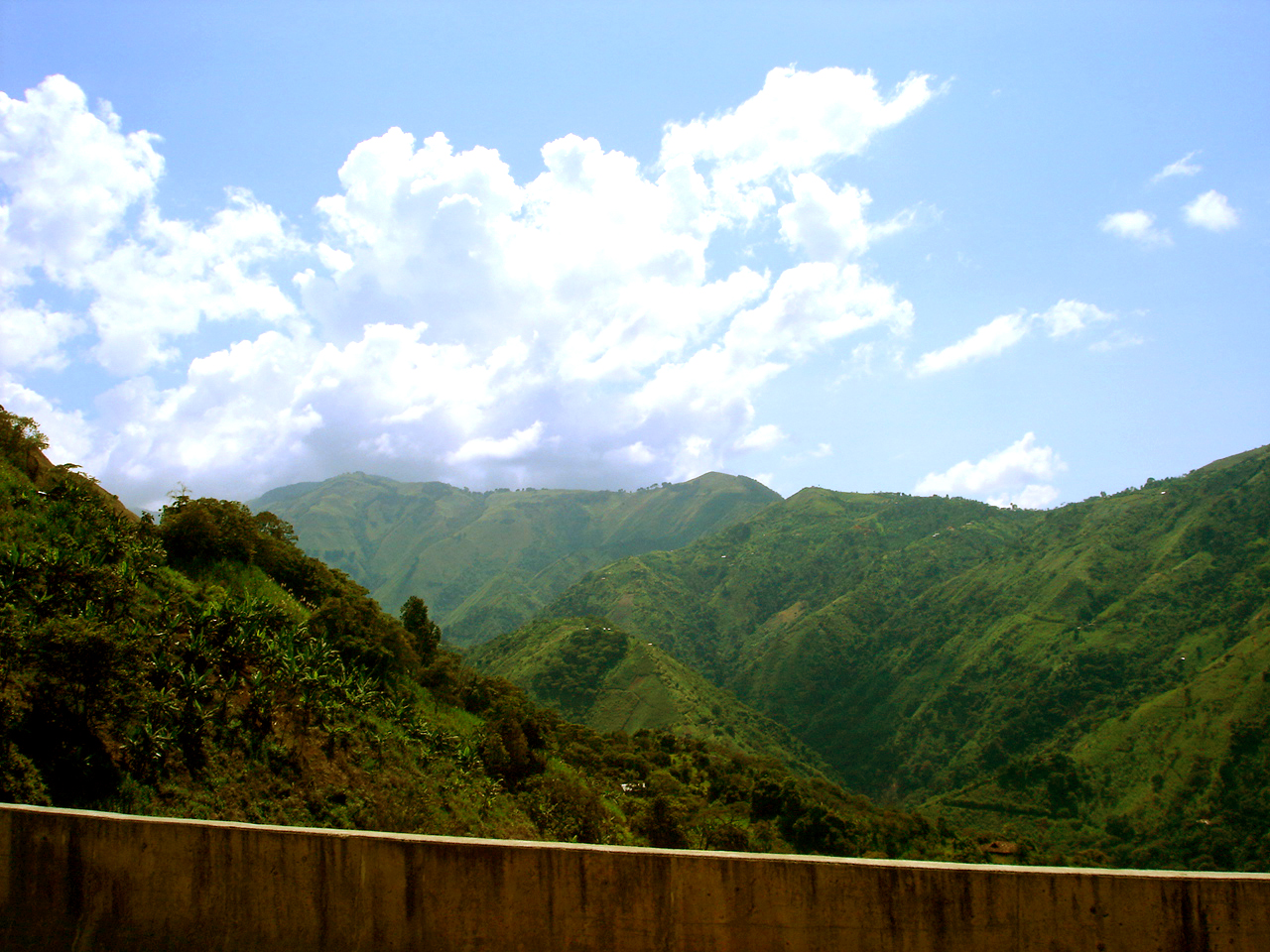 Picture captured by uploader on November 2006